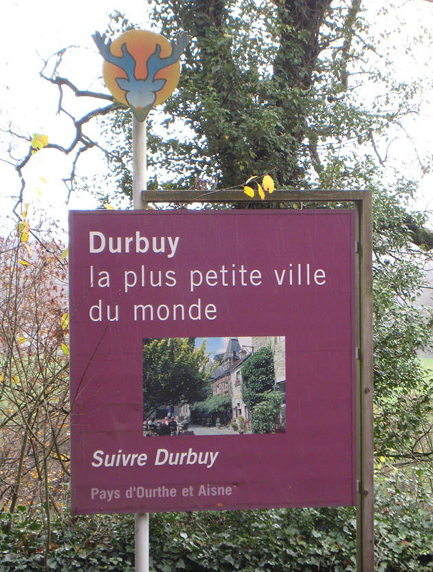 Sign on the road entering Durbuy describing it as la plus petite ville du monde - the smallest city in the world